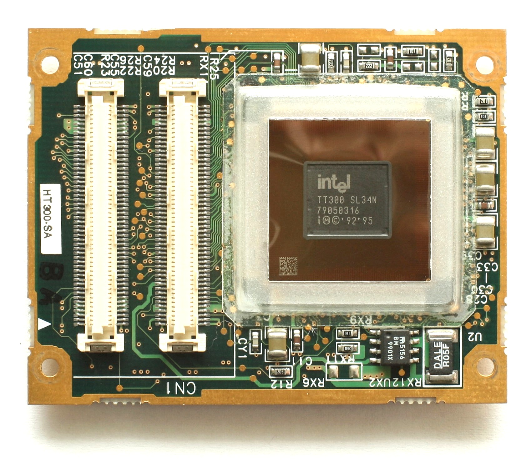 CPU Intel Mobile Pentium MMX 300 MHz (Tillamook)